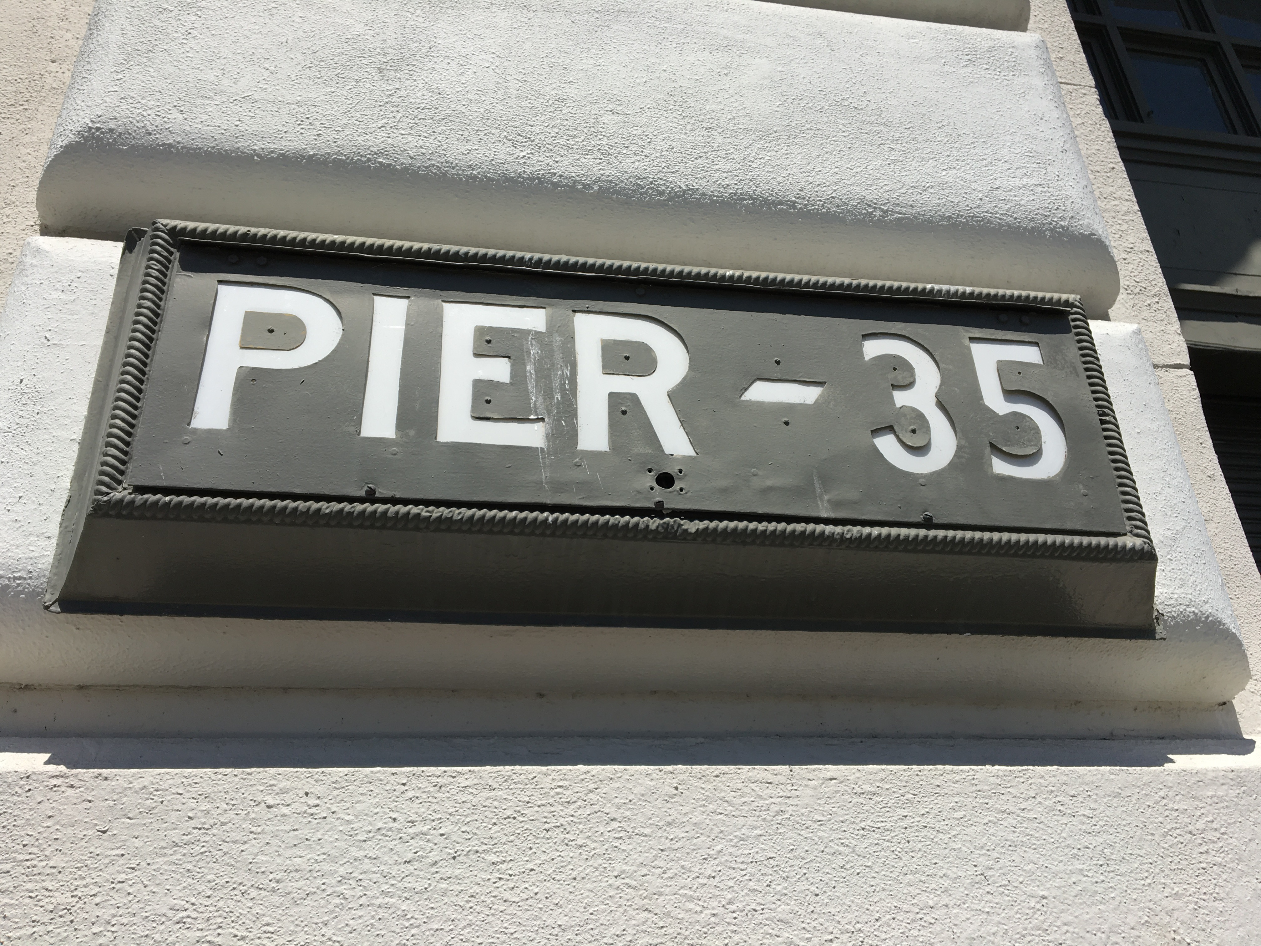 August 2016